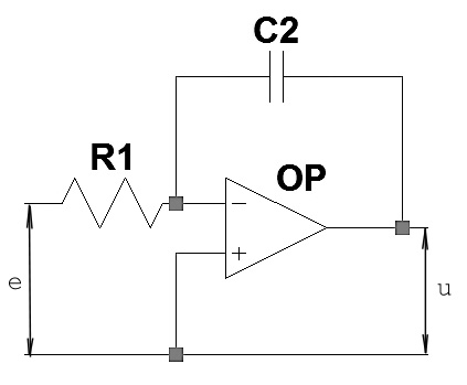 Regulator integralnog dejstva